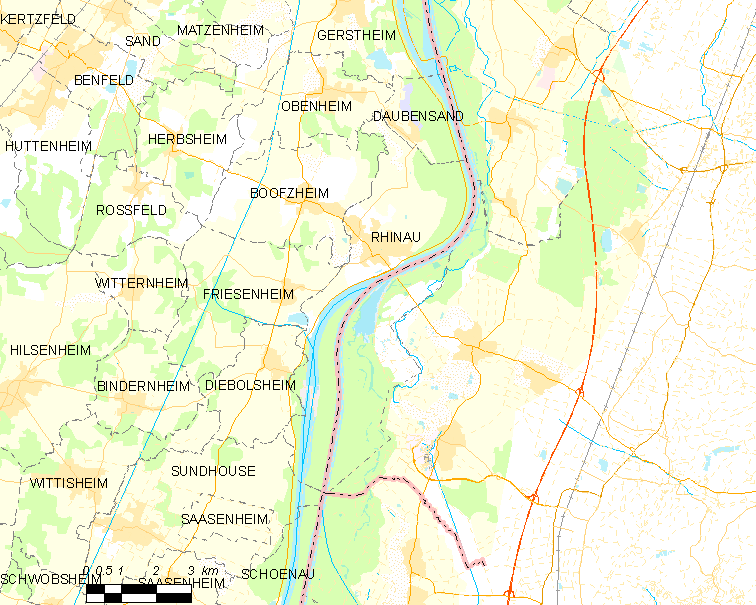 Map of French municipality